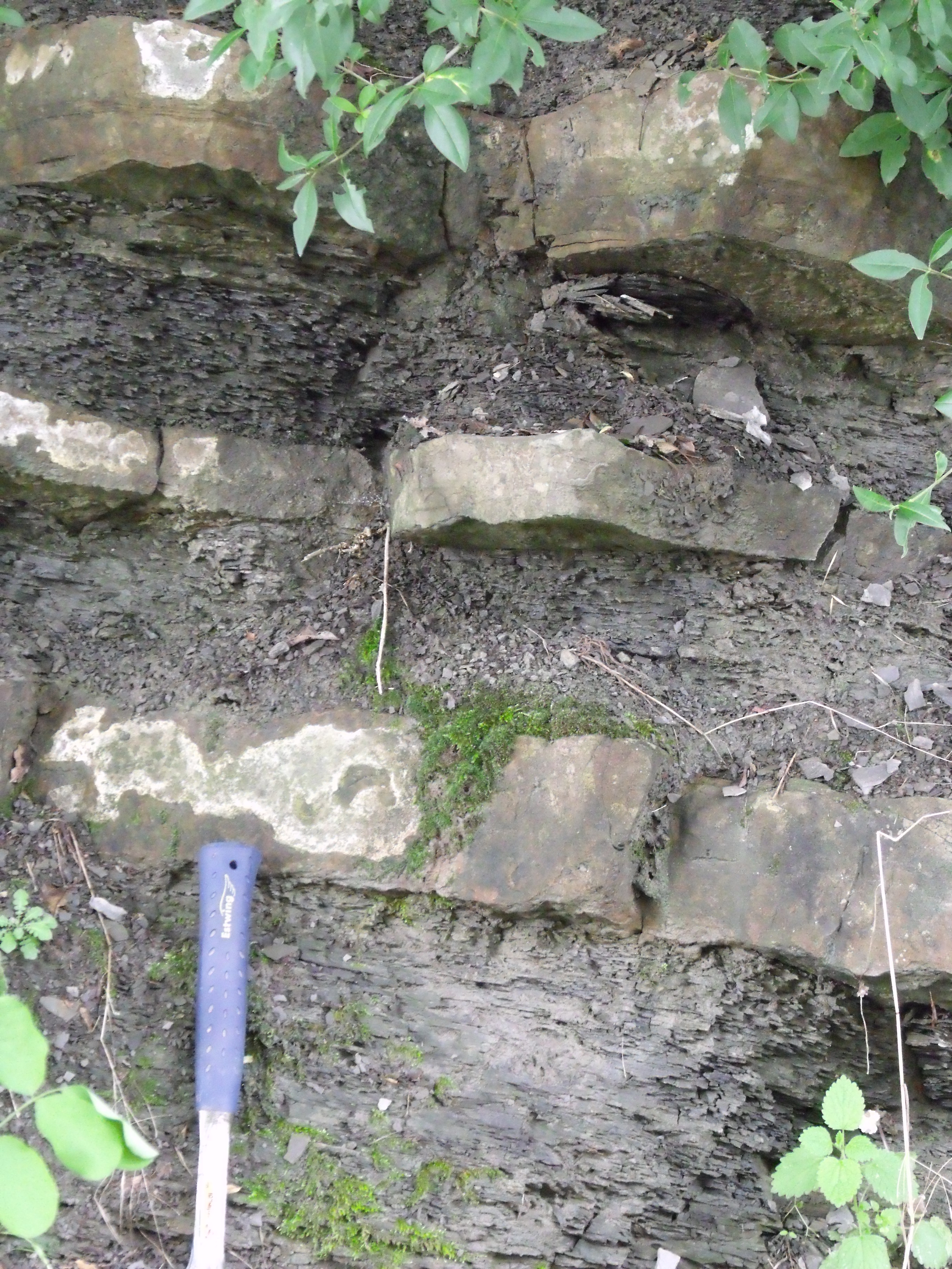 Flych sequence from the Ljig formation, western Serbia Љишки флиш кредне старости, на локалитету Кадина лука, Љиг, западна Србија